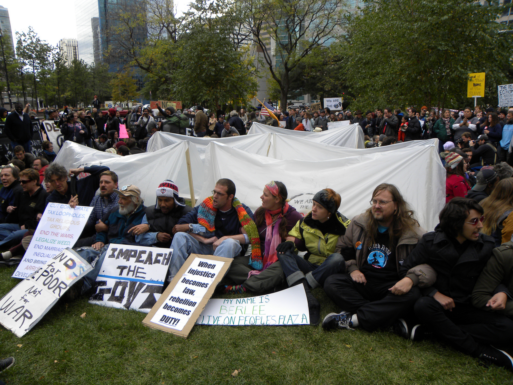 Occupy Minneapolis protesters link arms, surrounding tents set up at Hennepin County Government Center in defiance of the tent ban decreed by Sheriff Rich Stanek. Photograph taken on October 15, 2011 in the grassy area south of the Hennepin County Government Center building. Original caption: "The OccupyMN protest has occupied Minneapolis. This effort is one of many such protests around the world in association with the Occupy Wall Street protest in New York City. Until tonight, protesters have occupied the space without tents, but tonight they defied the wishes of law enforcement and brought tents to sleep in. They occupied the grassy knoll south of the Hennepin County Government Building."